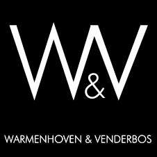 Warmenhoven & Venderbos Logos